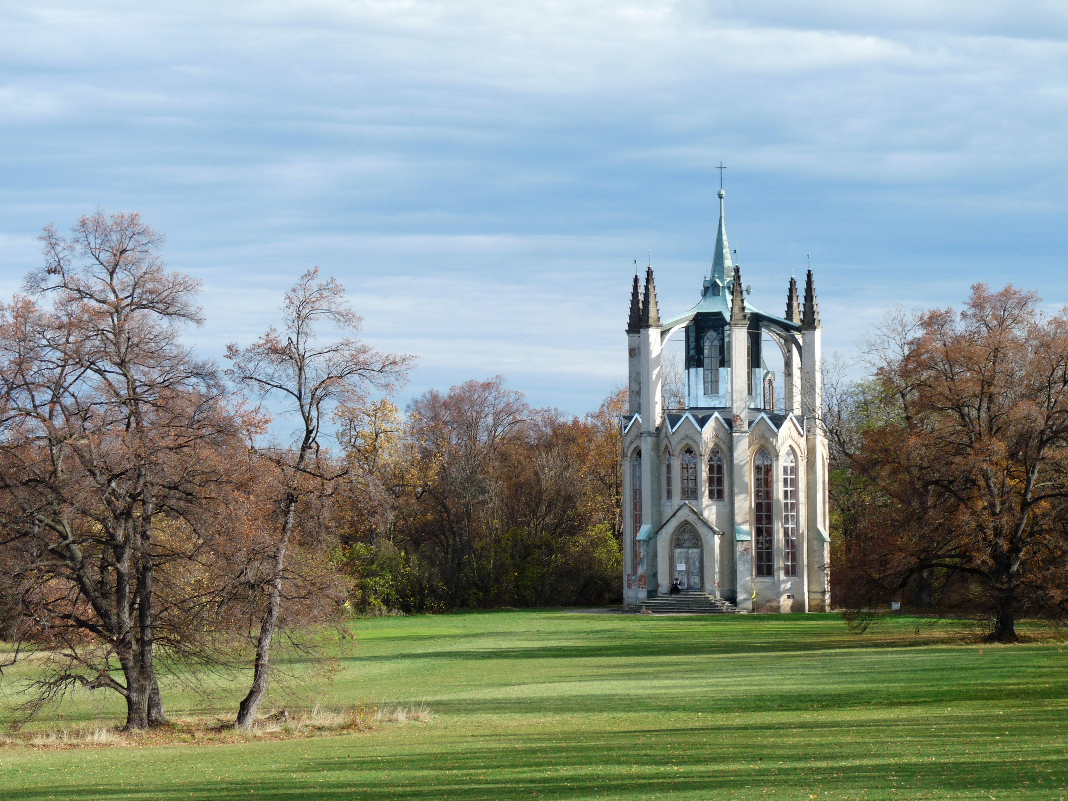 Castle park in the municipality of Krásný Dvůr in the Louny District, Ústí nad Labem Region, Czech Republic.